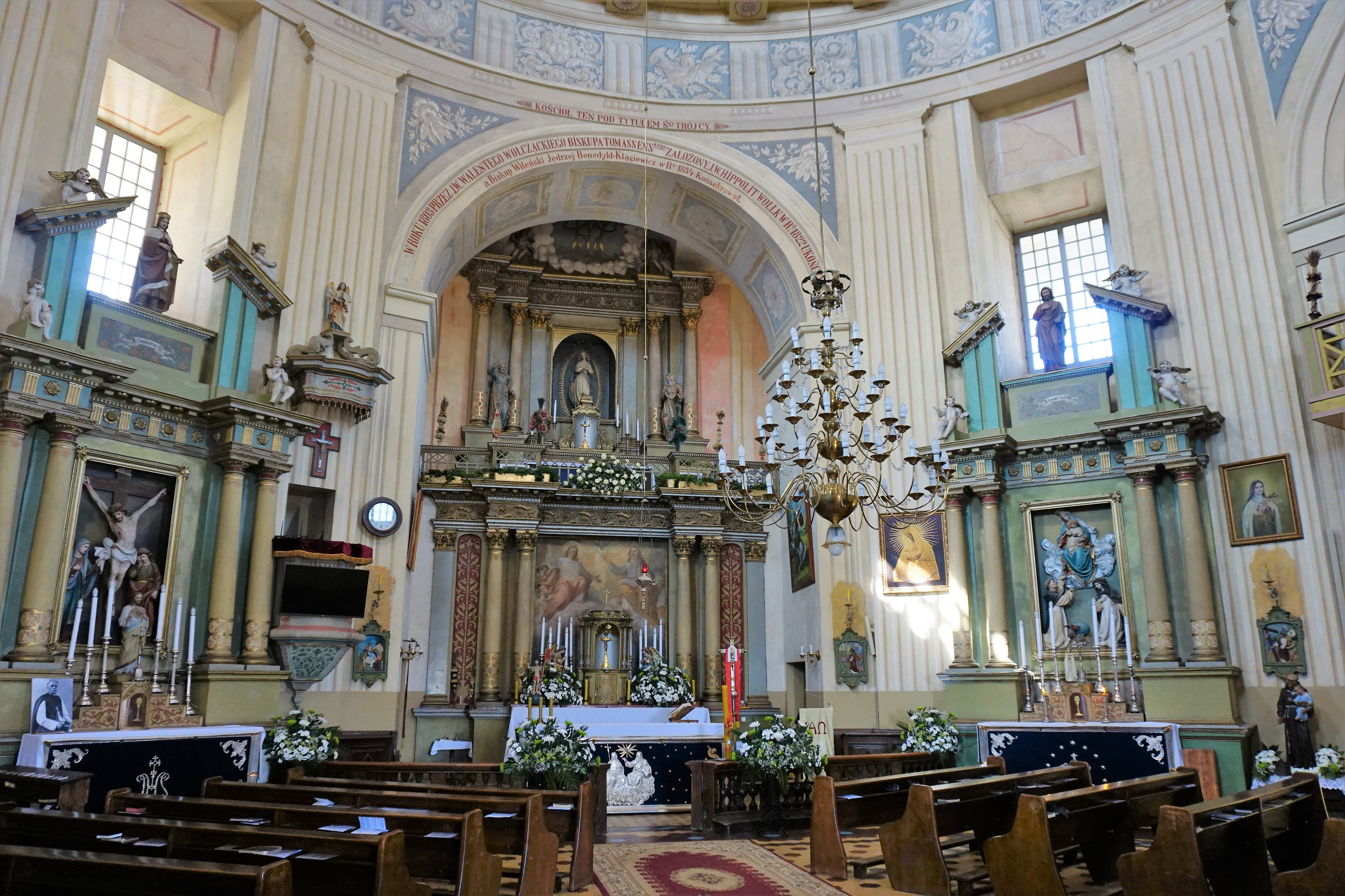 Interior of the Holy Trinity Church, Sudervė